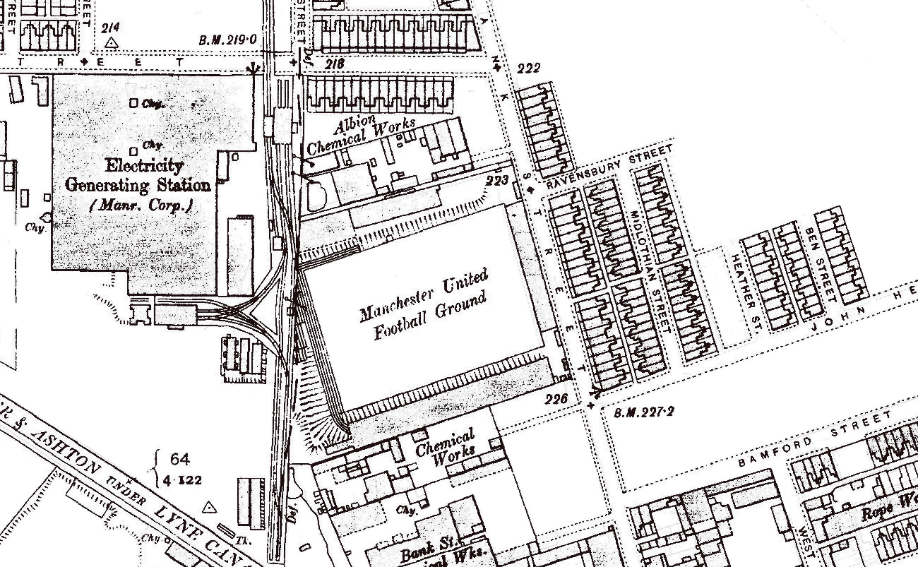 Map of the area surrounding Bank Street, Manchester, United Kingdom, circa 1909.